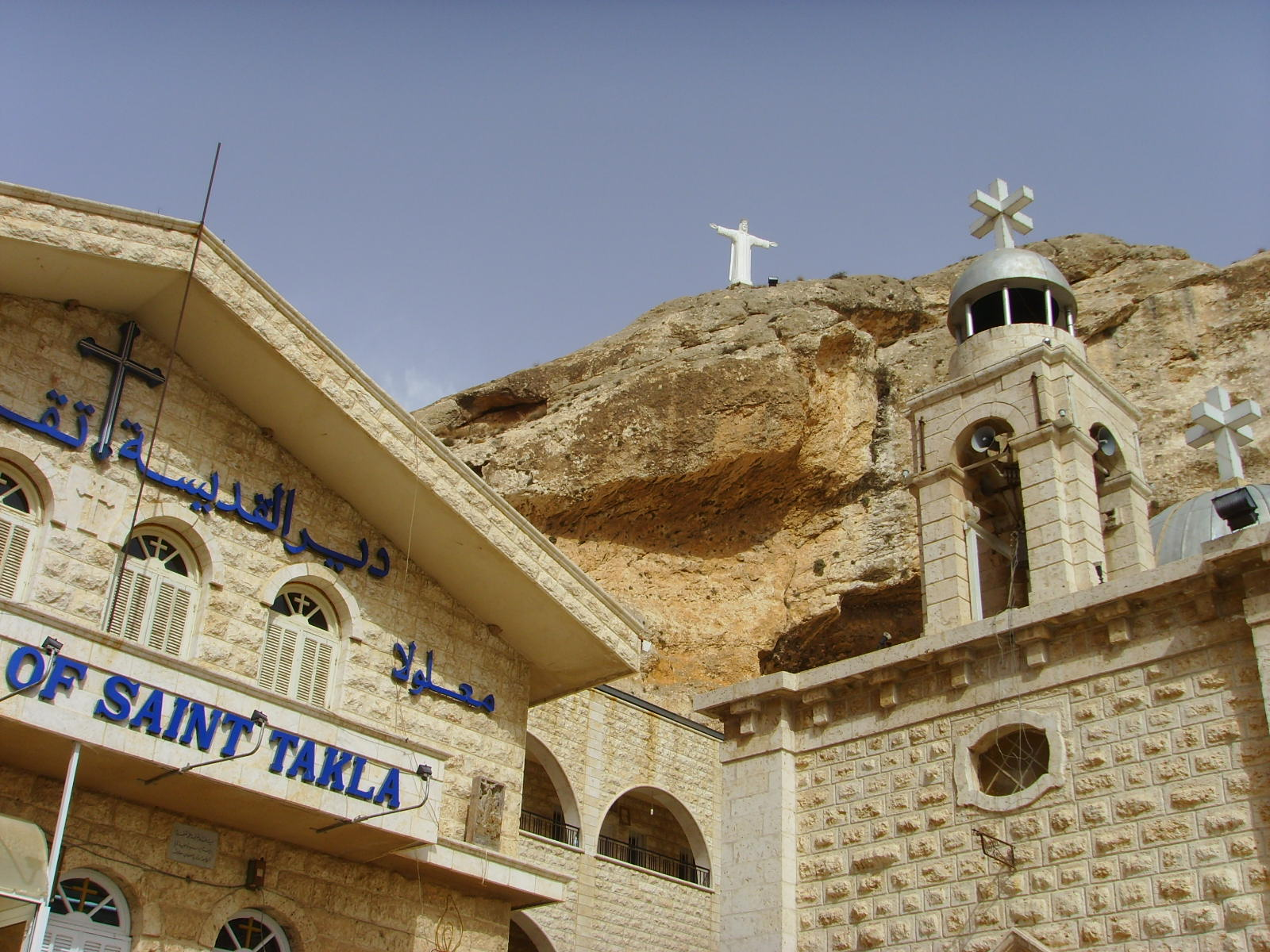 Monastery St Takla